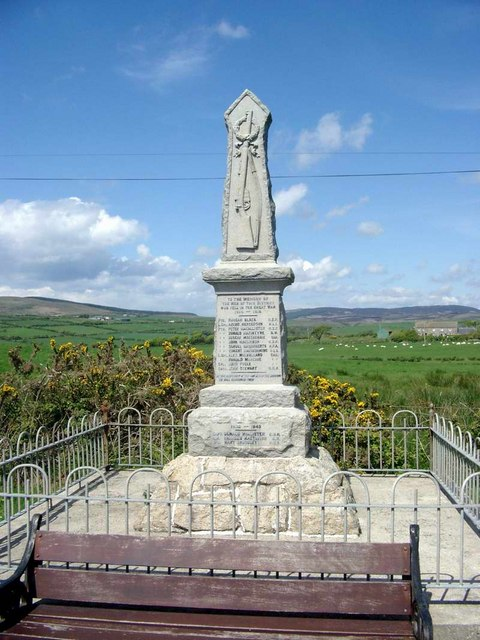 War memorial at Bennecarrigan The memorial is actually on the west side of the Ross Road, not the east.